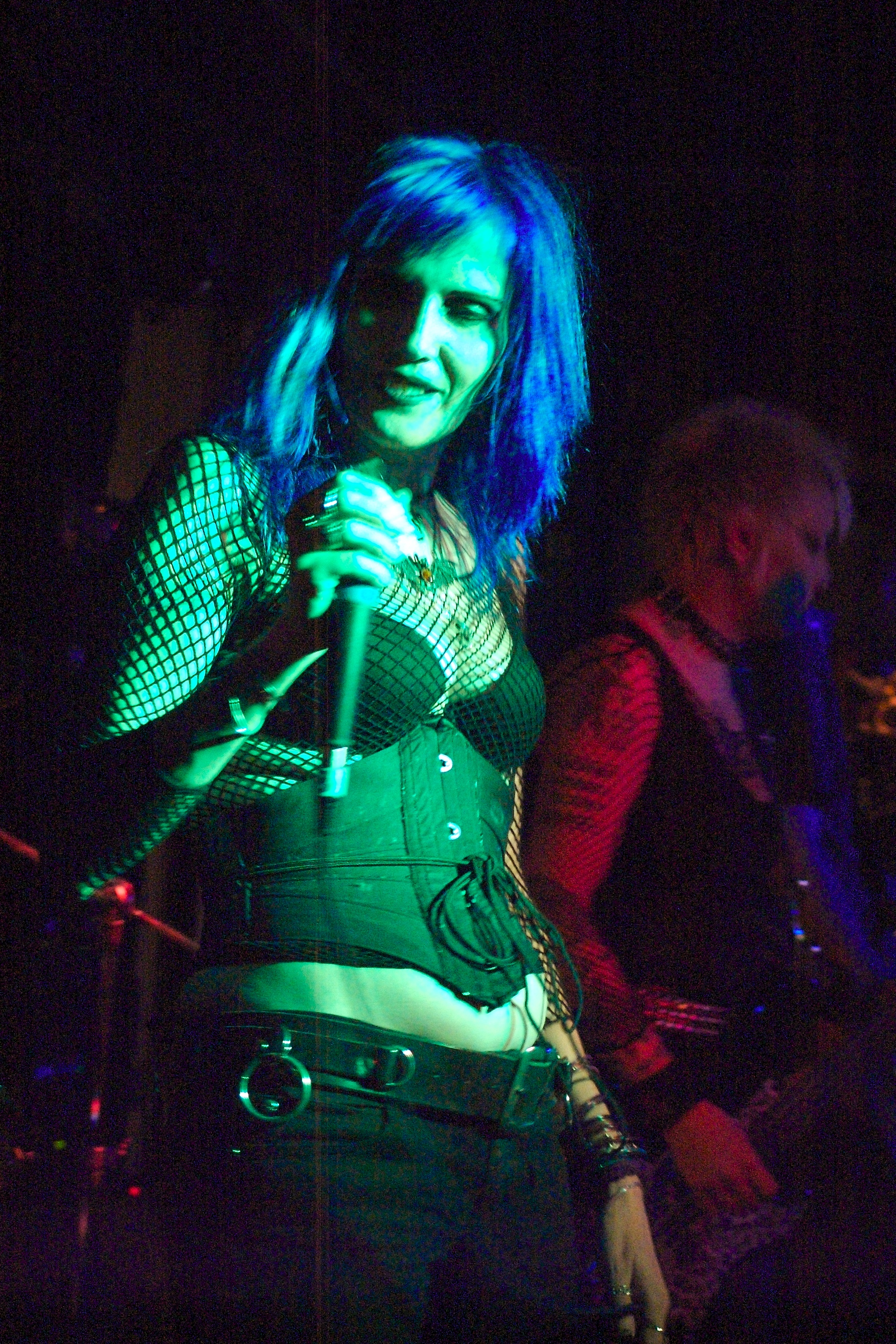 Dinah Cancer, lead vocalist for the death rock band 45 Grave, performing at the Bats Over Broadway event at Blue Cafe, Long Beach.